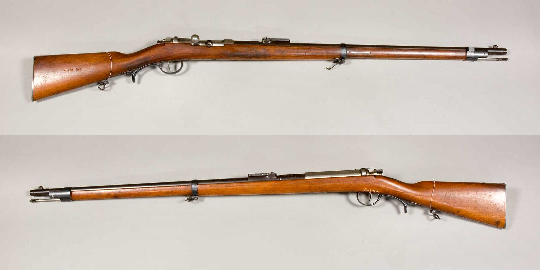 Infanteriegewehr m/1871 für Jägertruppen. Mauser, Germany. Caliber 10.95mm. From the collections of Armémuseum (Swedish Army Museum), Stockholm.